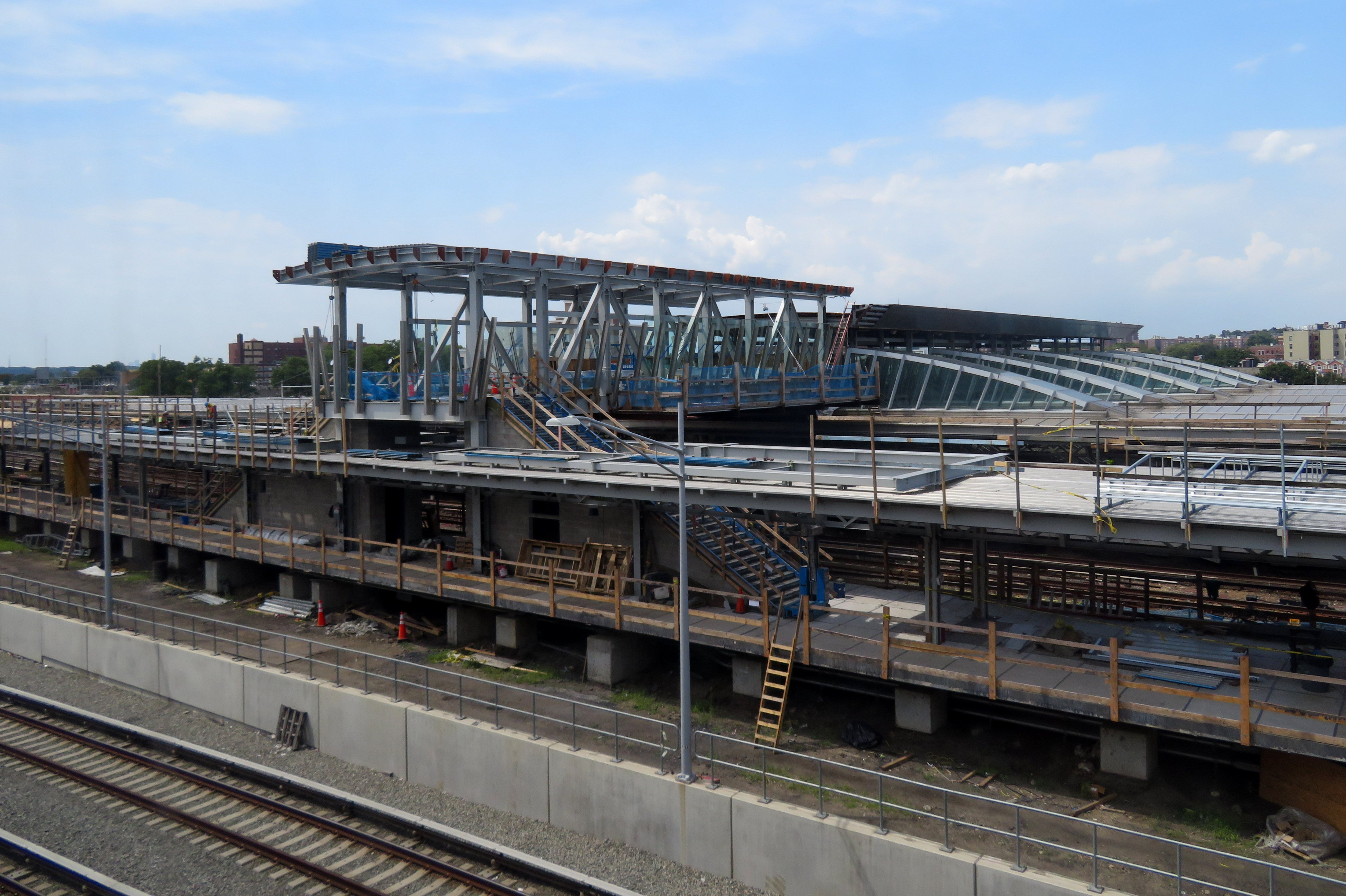 Construction of Platform F at Jamaica station viewed from the AirTrain in August 2019